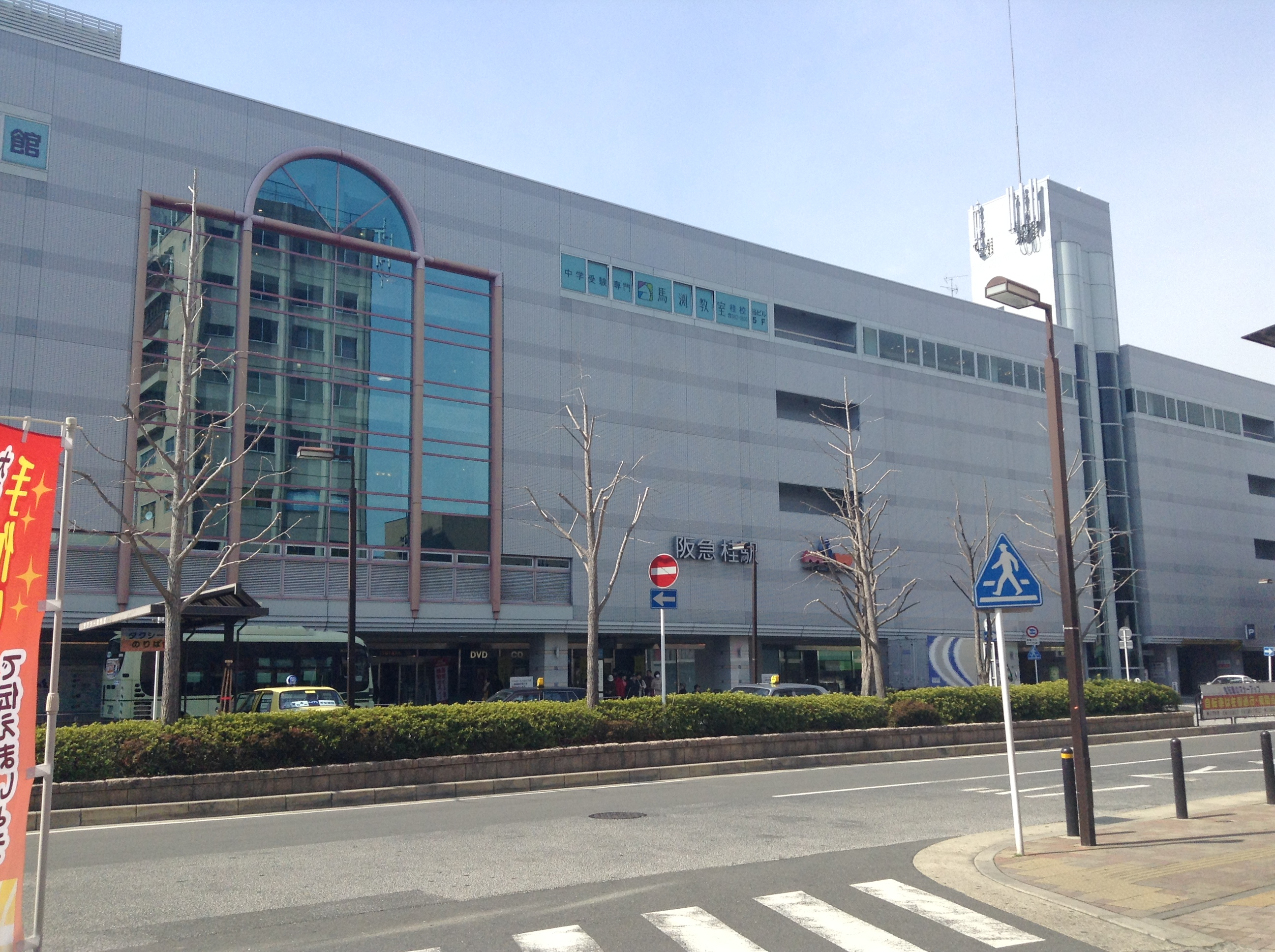 Katsura Station.